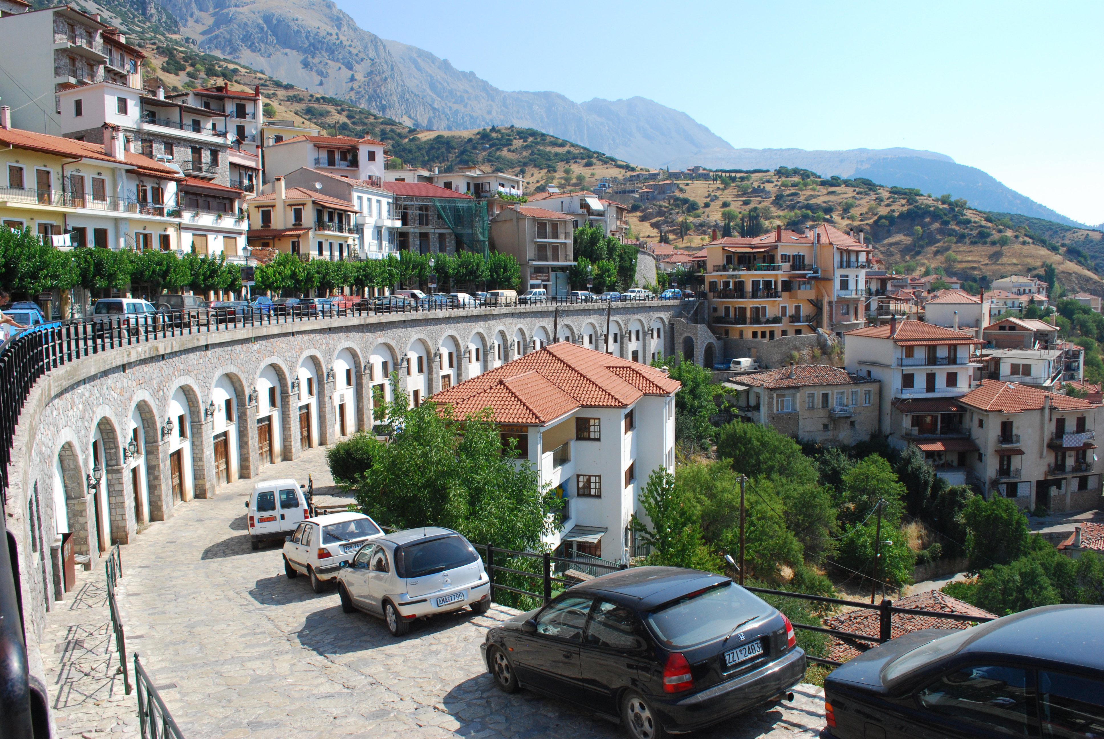 View of Arachova (Viotia).